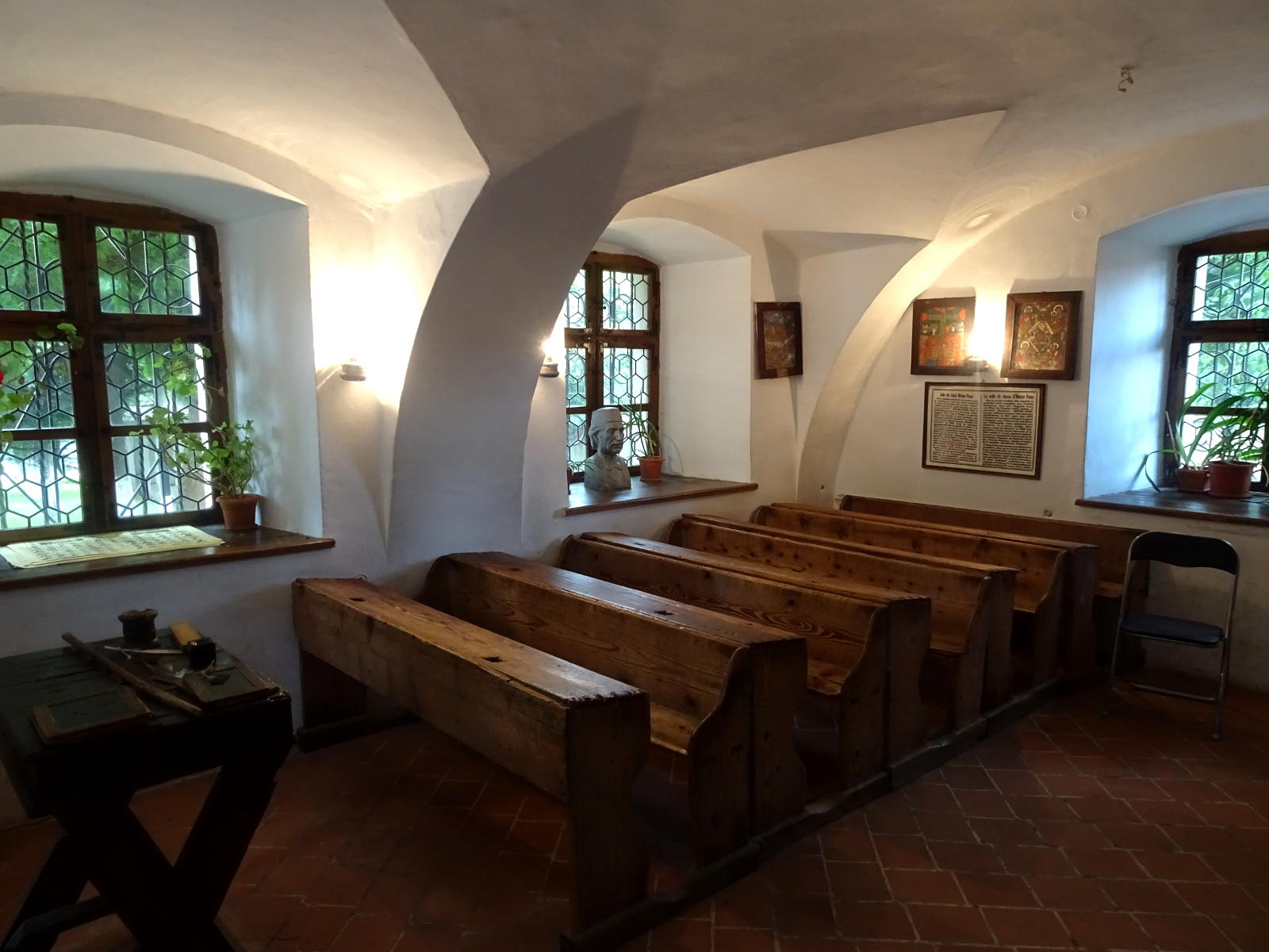 The First Romanian School museum in Brașov, interior